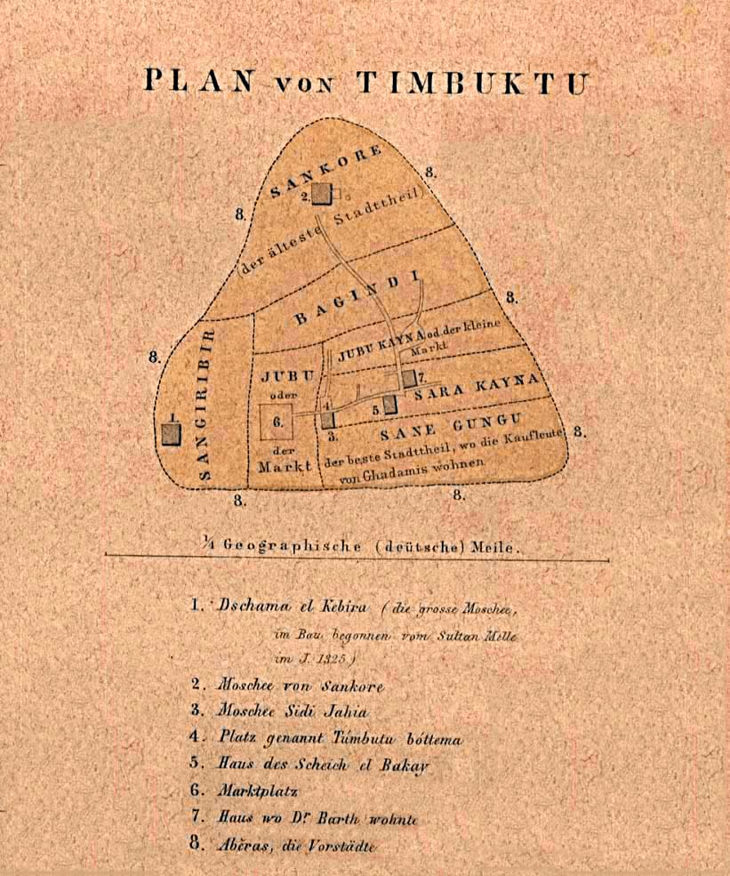 Map of Timbuktu from en:1855 taken from